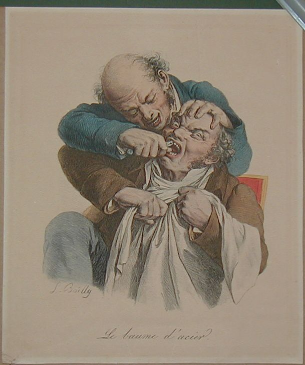 Le baume d'acier (Dentist). Louis-Léopold Boilly (1761-1845). Hand colored lithography, Paris. 1825, 28 x 24 cm